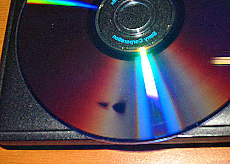 A photograph of a digital disc with disc rot.